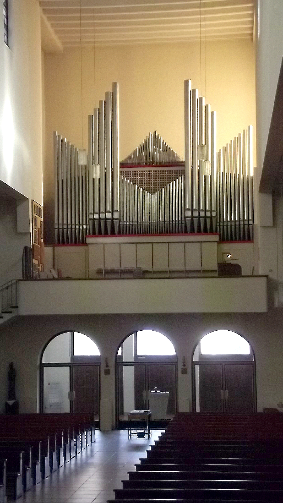 Interior of the roman catholic St. Ann's-church in St. Wendel, Saarland, Germany